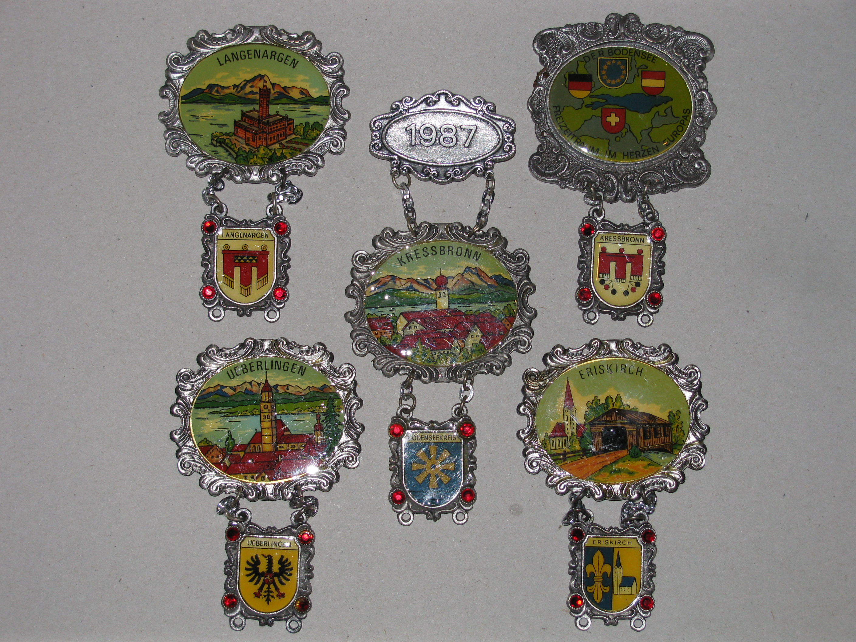 Bodensee-Marathon: medals for different participations